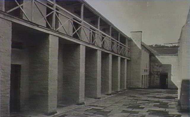 A section of Womens Prison, Cascades, Hobart